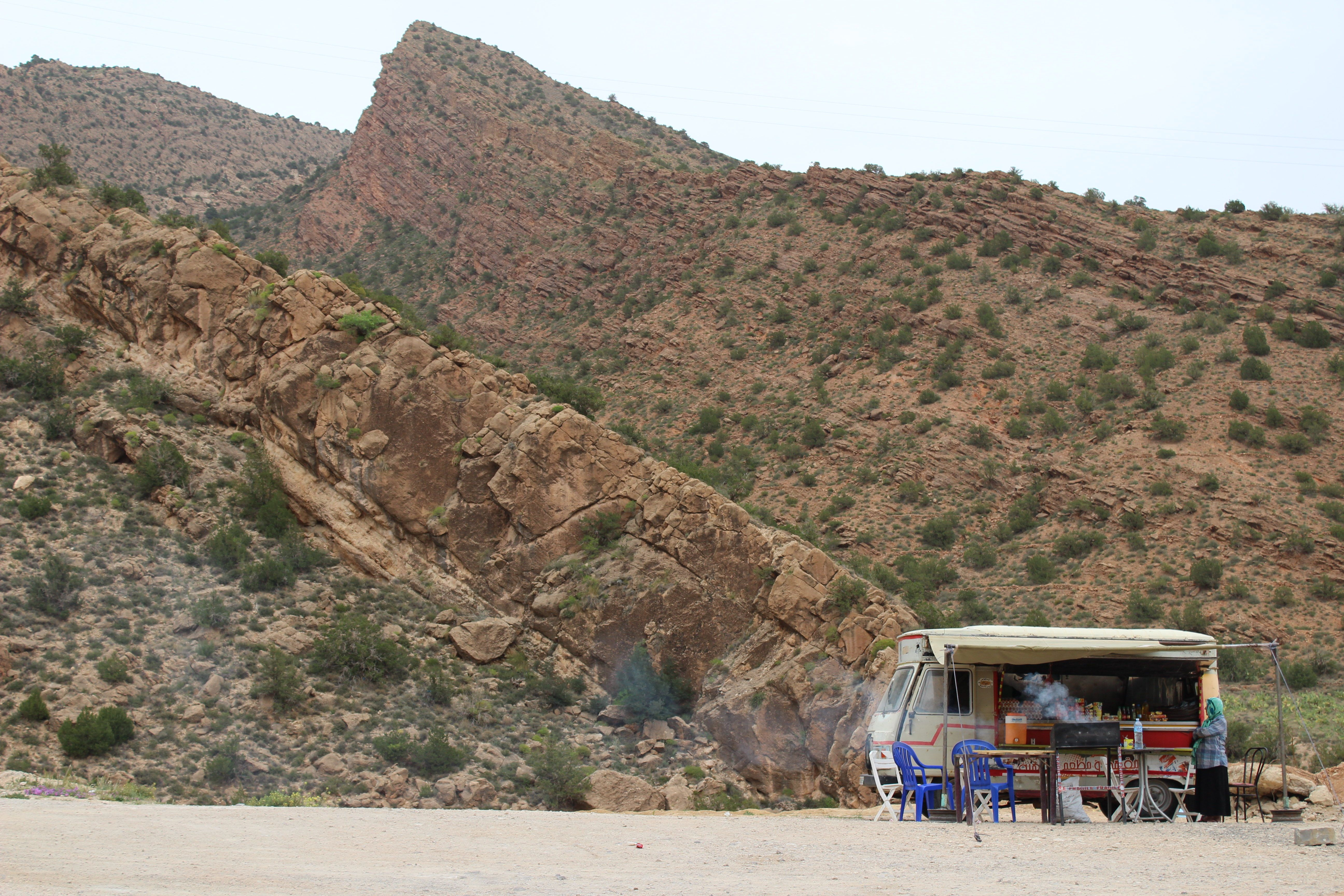 Southern Side of El Aouras (THAGHITH, where officially the first act of 1954th Algerian Revolution took place)